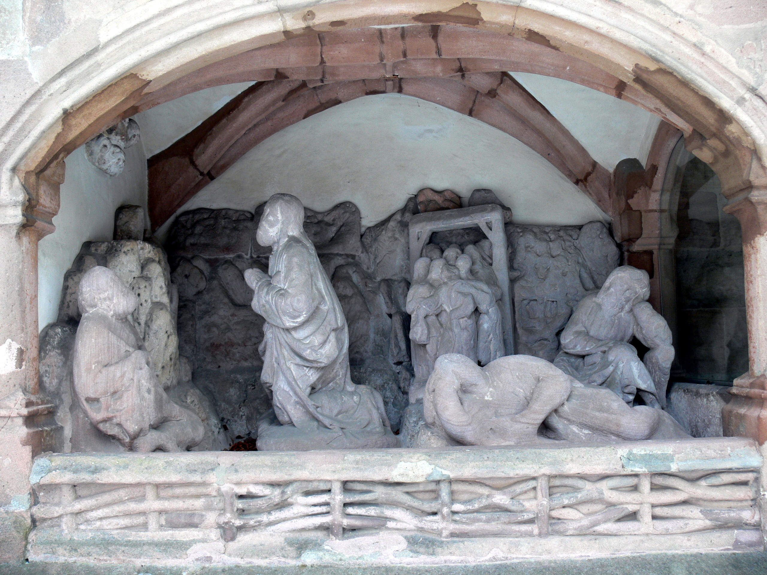 Saint Sixtus church in Erlangen-Büchenbach. Christ on the mount of olives ( 1516 ).